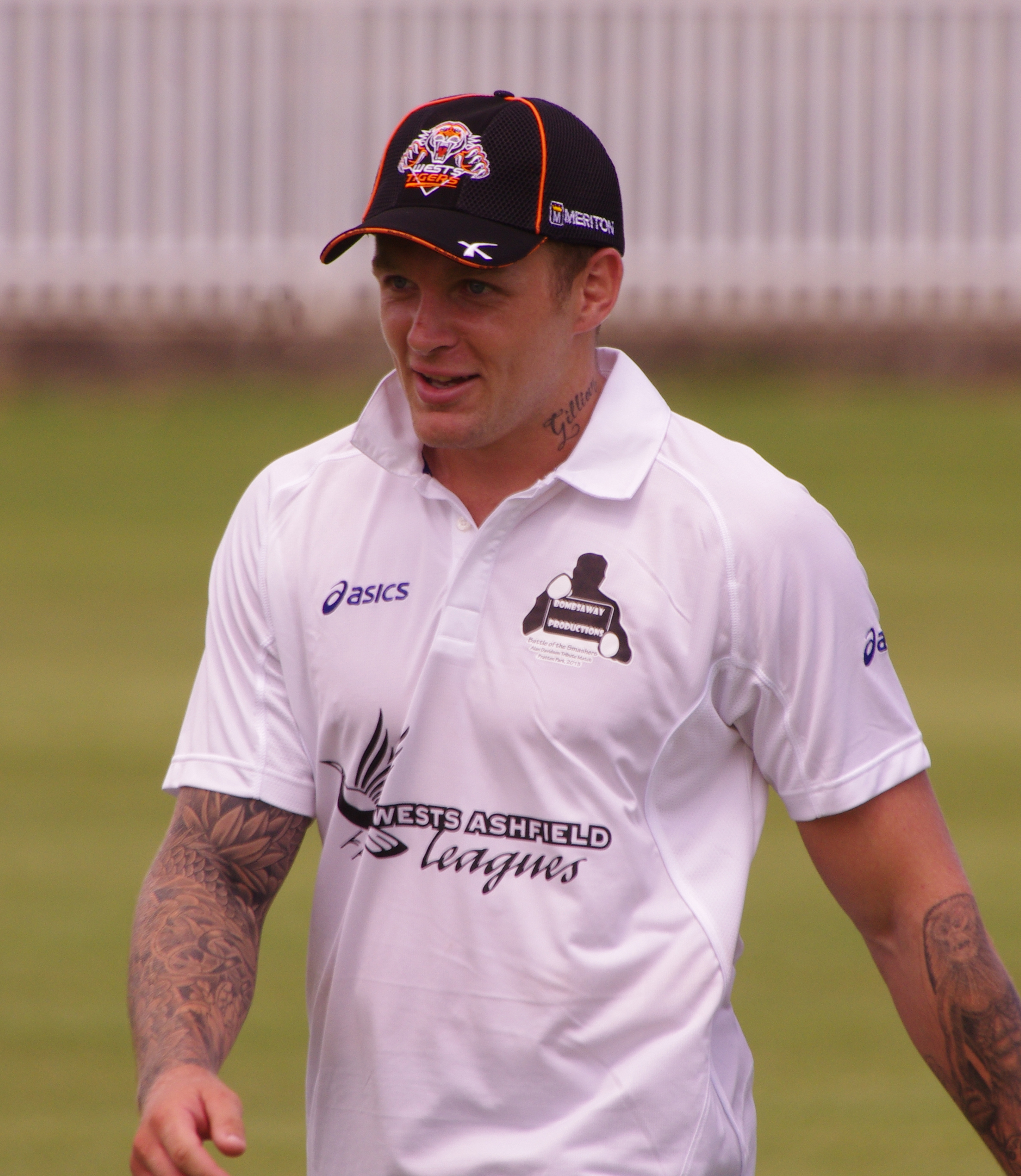 Blake Austin in 2014